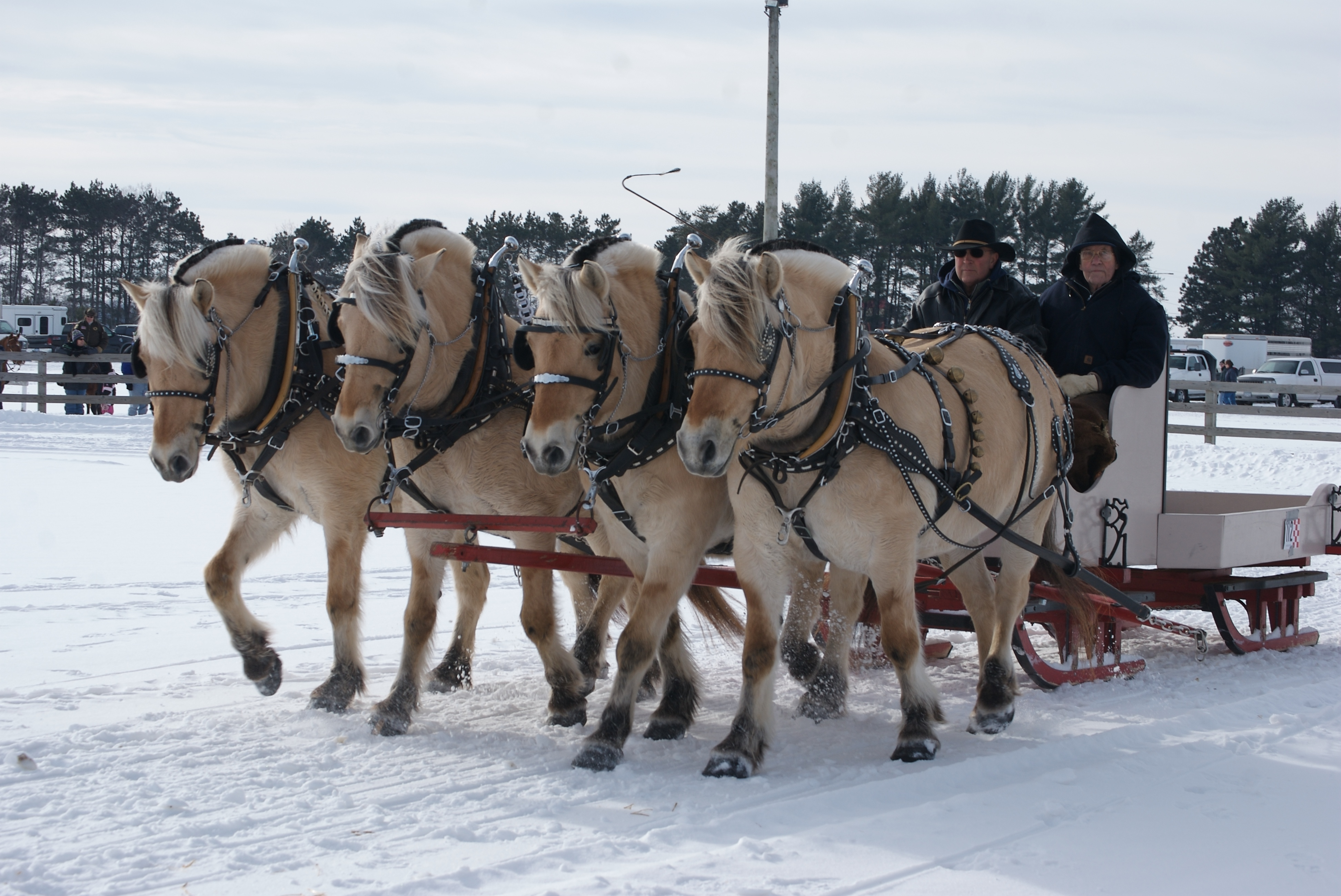 This was another of the competitors at the St. Croix Valley Carriage and Driving Society's 2008 Sleigh and Cutter Festival held in Lake Elmo, MN. This farm bobsled is being pulled by a hitch of four Norwegian Fjord horses. Fjord's are considered a "draft pony", meaning they are strong enough to do heavy pulling, but relatively short in stature.